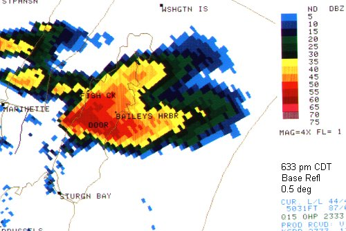 Reflectivity radar image of a tornado producing super cell over Door County Wisconsin. The hook echo is visibile on the lower left of the cell. (Credit - WSR-88D Doppler Weather Radar, Processed by NWS Green Bay)